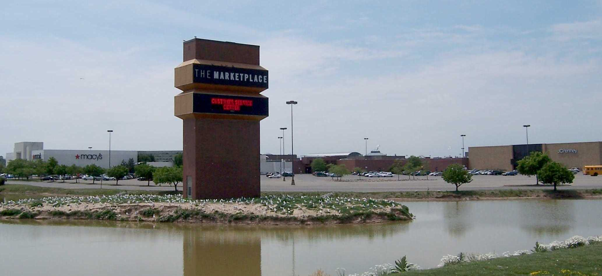 The Marketplace Mall in Henrietta, a suburb of Rochester, New York. This image shows two of the five anchors, Macy's and J.C. Penney.